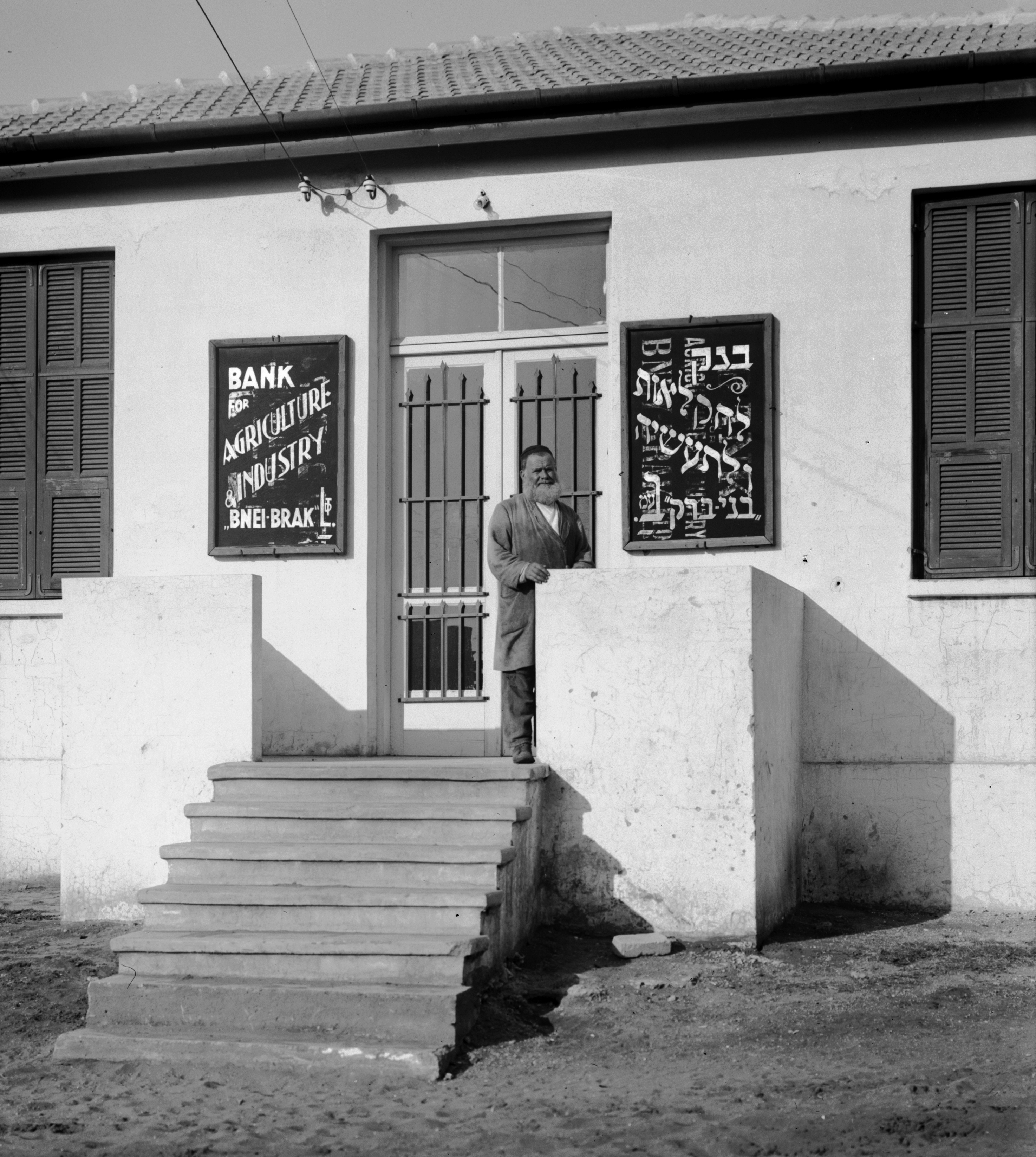 Zionist colonies on Sharon. Bnai Brak. The bank.